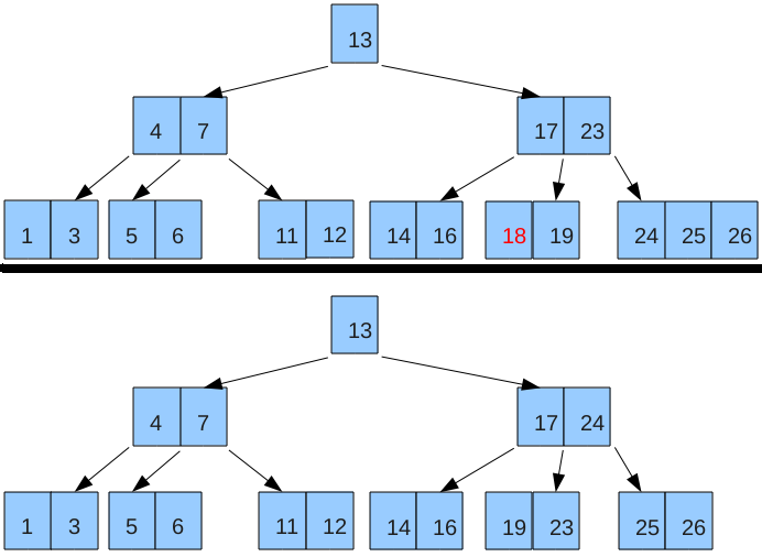 Delete key from B tree